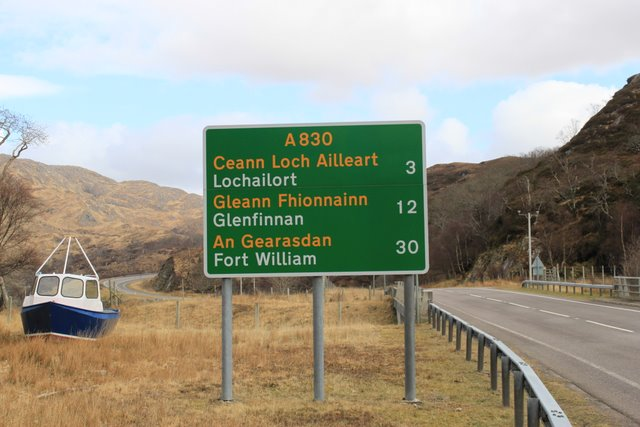 Road to Fort William Road sign with information giving in Gaelic and English.